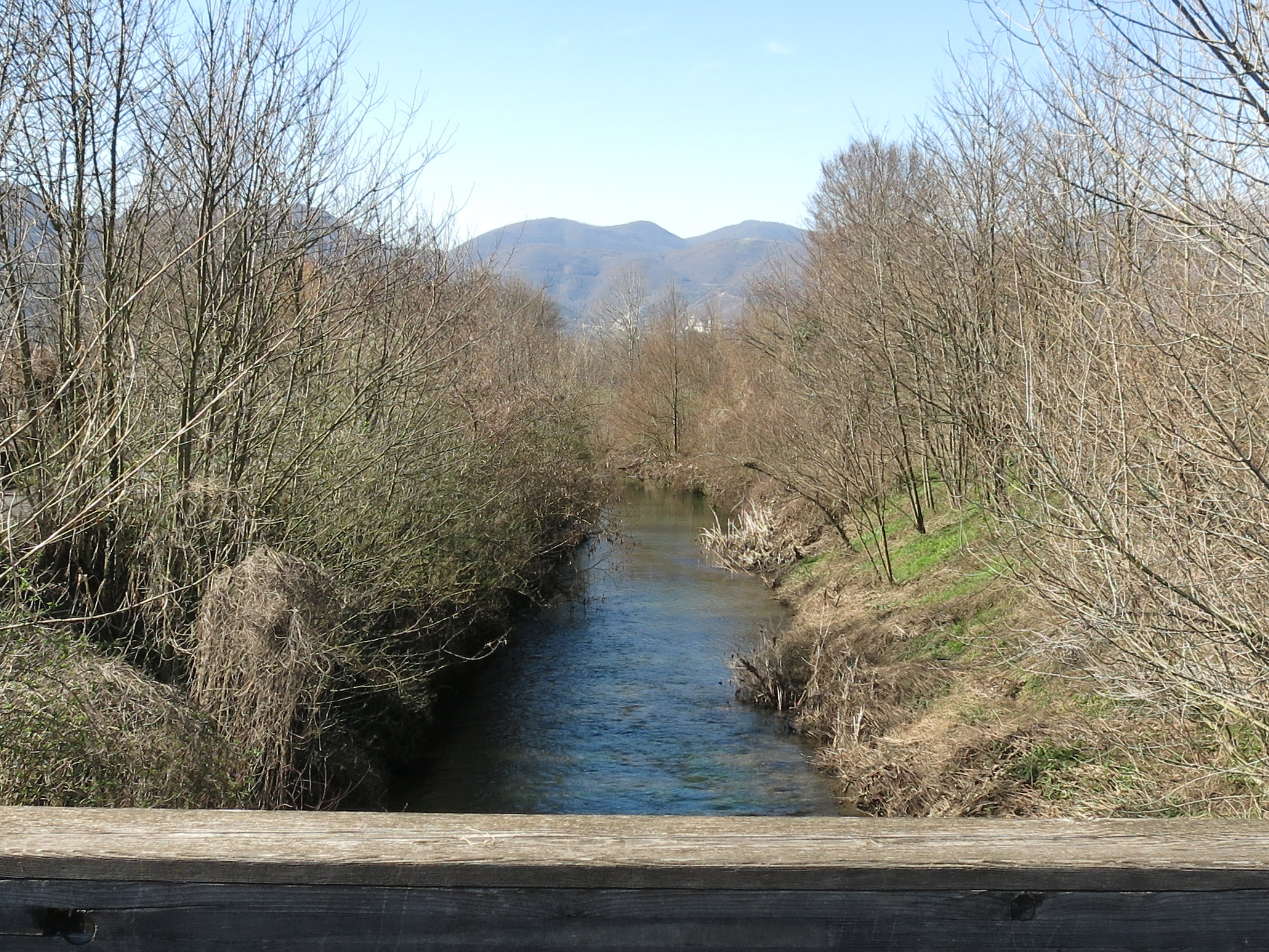 Turano river at Piani Sant'Elia (near Rieti, Lazio) as seen from a bridge of Ciclovia della Conca Reatina bikeway